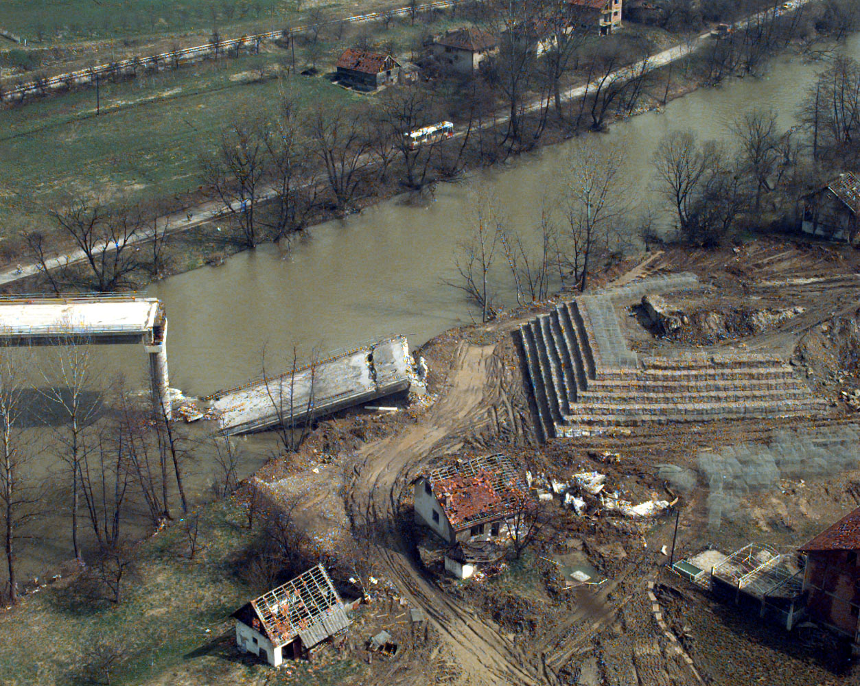 960407-A-8303M-002 The Visoko bridge in Bosnia is currently under construction on April 07 1996 during Operation Joint Endeavor. (Photograph by Specialist Andrew McGalliard 55th Signal Company Combat Camera.)